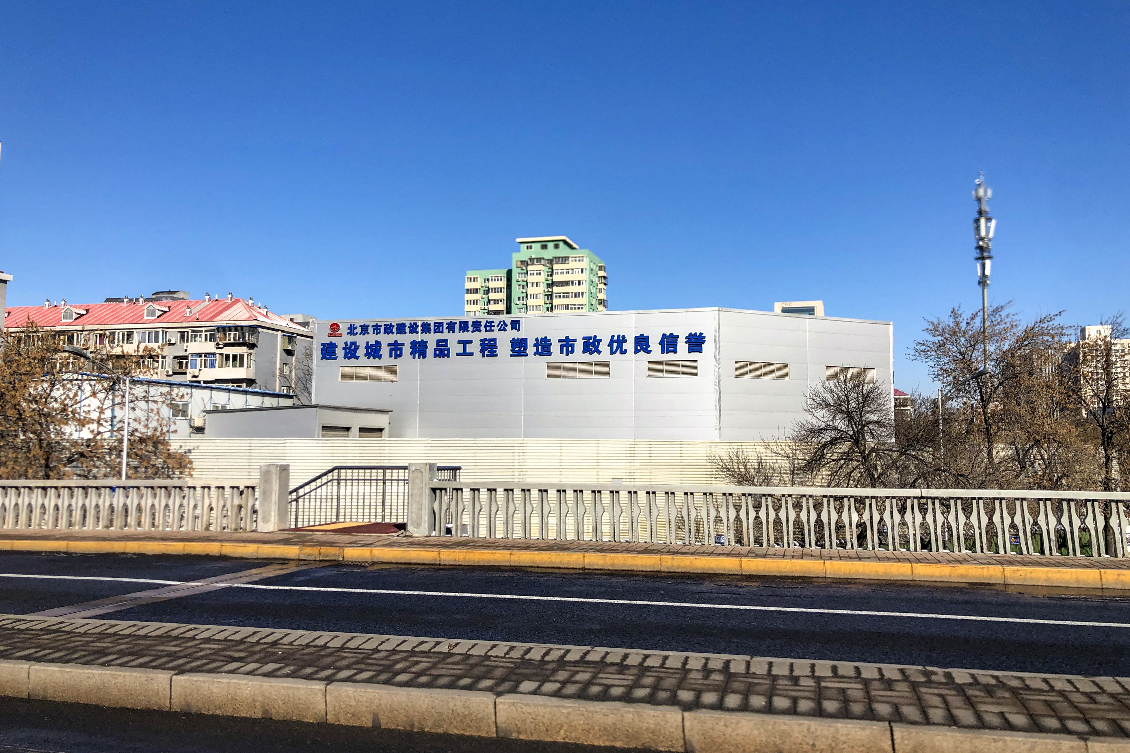 Between Anhuaqiao and Hepingxiqiao.